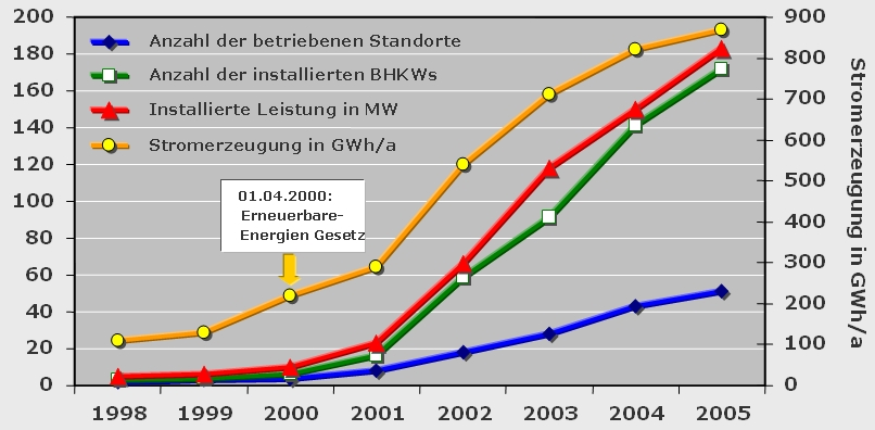 Grubengasnutzung-in-Deutschland; Grubengas; German; gas; coal; mining